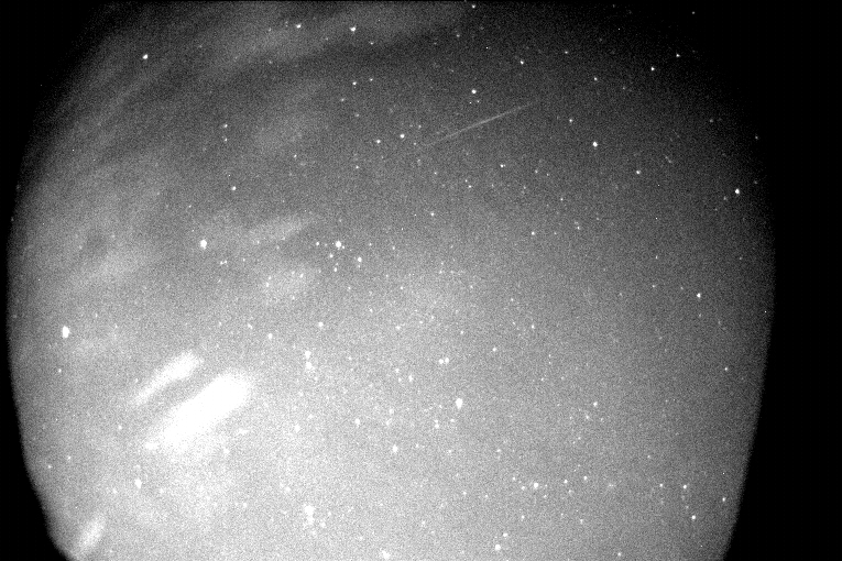 All sky camera image showing a Quadrantid meteor. A 4 second exposure using a wide angle lens at Ladd Observatory